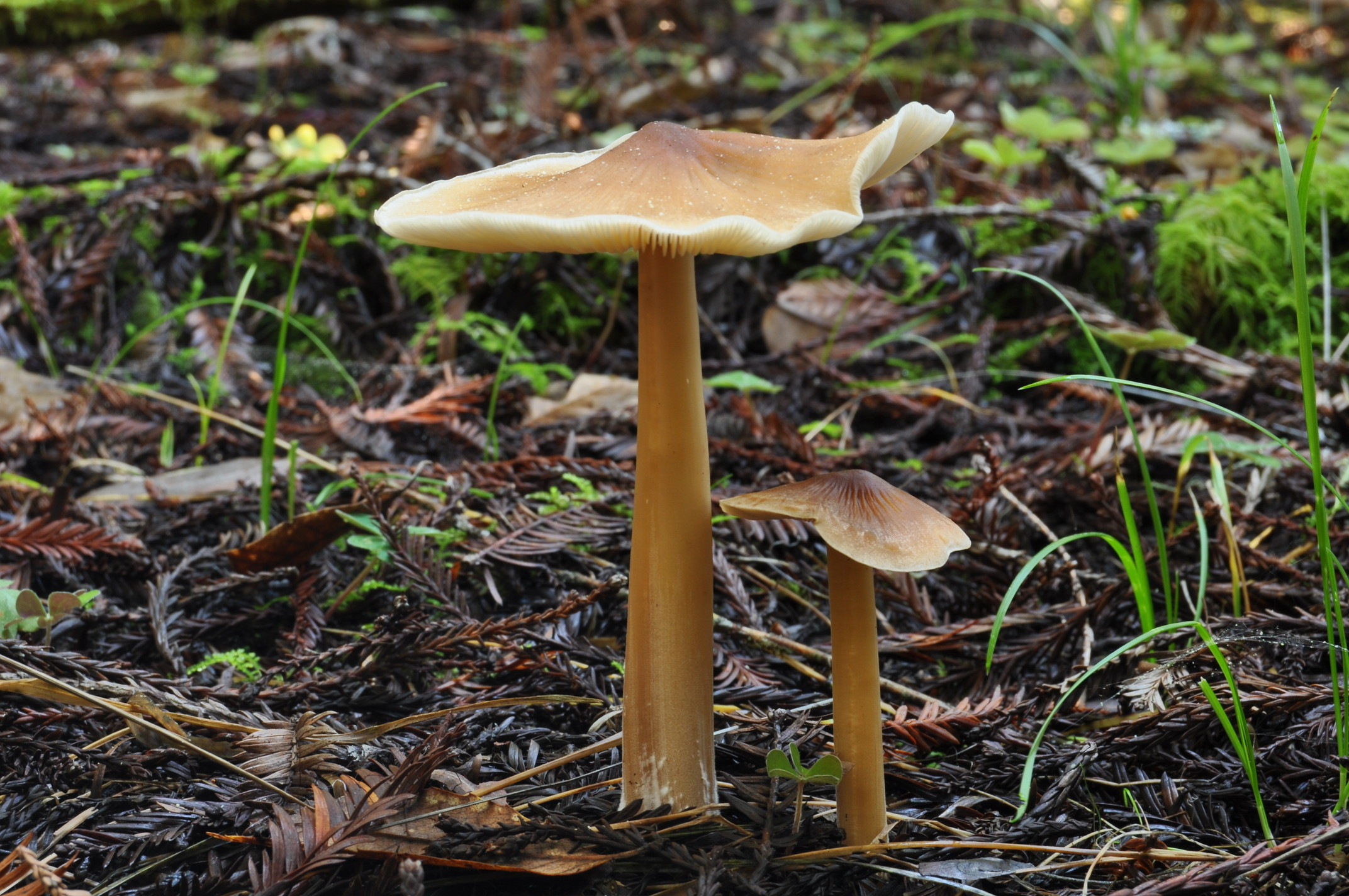 Fruit bodies of the fungus Caulorhiza umbonata (Peck) Lennox. Specimens photographed in Armstrong Redwoods State Park, Sonoma Co., California, USA. For more information about this, see the observation page at Mushroom Observer.